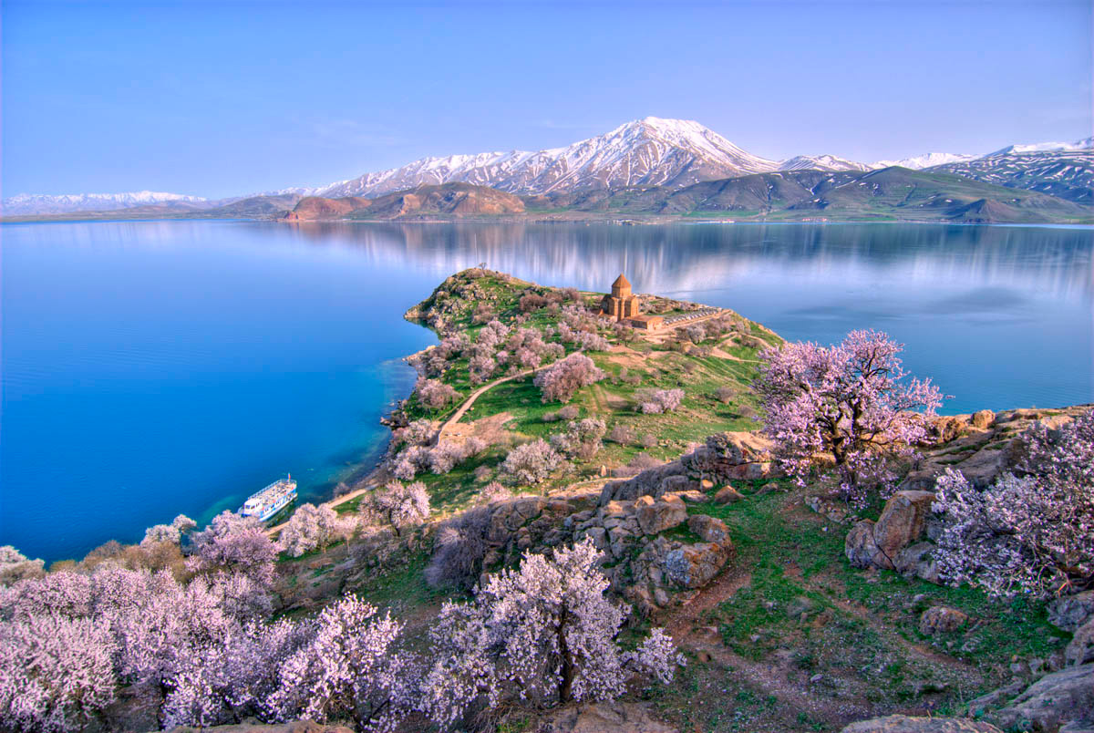 The Akhtamar Island in Lake Van with the 10th century Cathedral of the Holy Cross, Aghtamar.